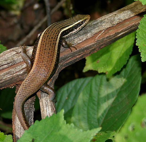 Bronze Mabuya or Bronze Grass Skink- Eutropis macularia (syn. Mabuya macularia) at Ananthagiri Hills, in Rangareddy district of Andhra Pradesh, India.